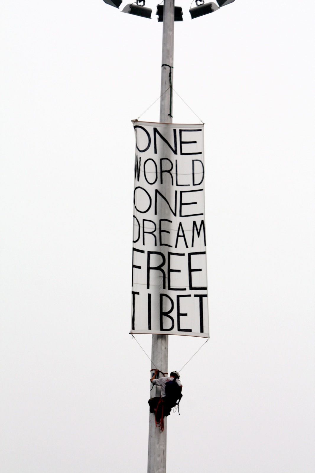 Four Tibet activists from Britain and the United States were detained in Beijing [on August 6] after unfurling Tibetan flags and two 140-square-foot banners outside the Olympic stadium. The first read, "One World, One Dream: Free Tibet" in English, and the second read, "Tibet Will Be Free" in English and "Free Tibet" in Chinese.